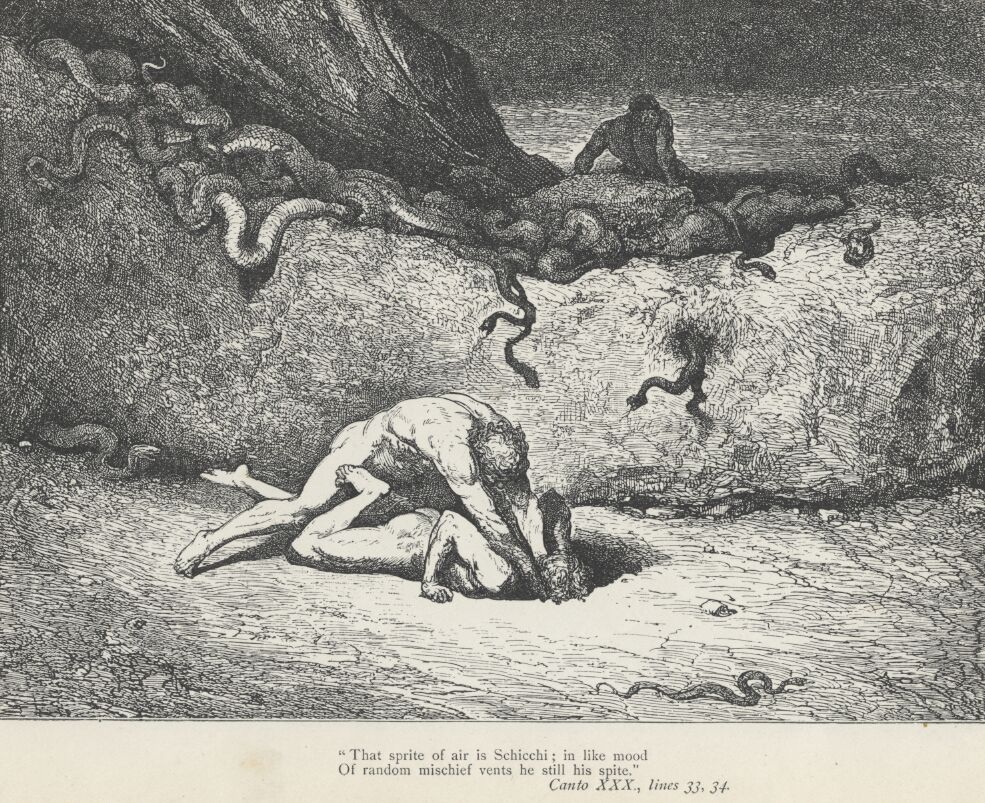 Illustration by Gustave Doré for The Divine Comedy by Dante, Illustrated, Hell, Volume 01, 1892